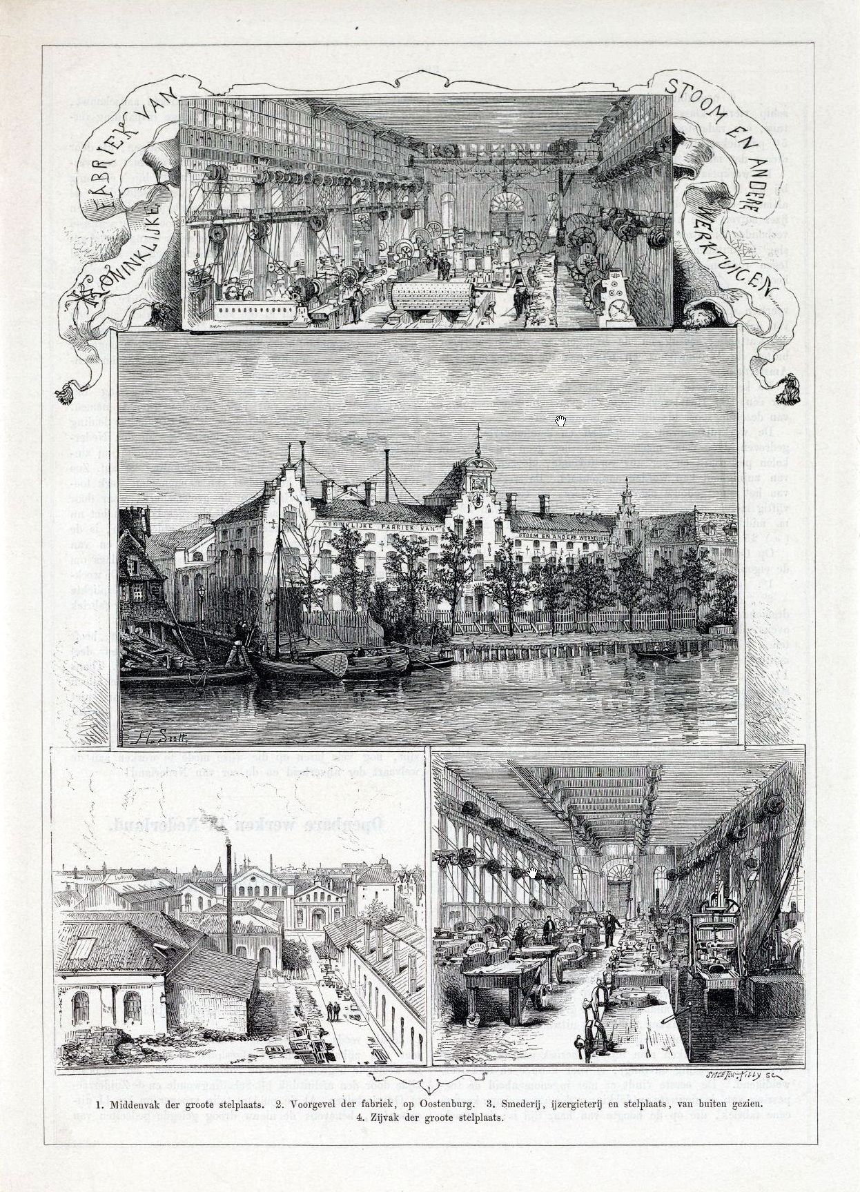 Koninklijke Fabriek van Stoom en andere Werktuigen, 1876